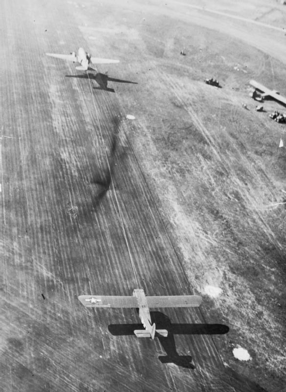 IWM caption : OPERATION 'MARKET GARDEN' (THE BATTLE FOR ARNHEM): 17 - 25 SEPTEMBER 1944. An aerial view of a C-47 Dakota as it tows off a CG-4A Waco glider from a British airfield en route for Holland.